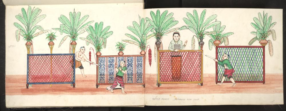 Watercolour painting by an unknown Burmese artist depicting 19th century Burmese life.